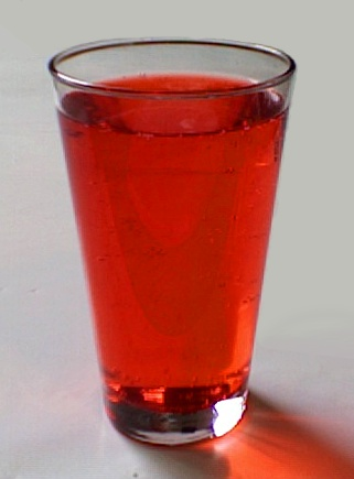 A glass of strawberry (artificially flavored) soda. Generic brand (Safeway brand to be precise). Contains Red 40 (Allura Red AC) for the red coloring.